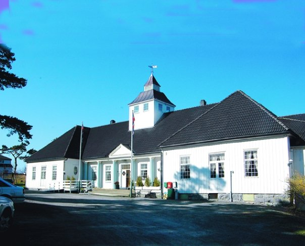 Langesund Bad